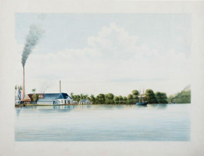 River view at sugerplantation Catharina Sophia by the Saramacca River